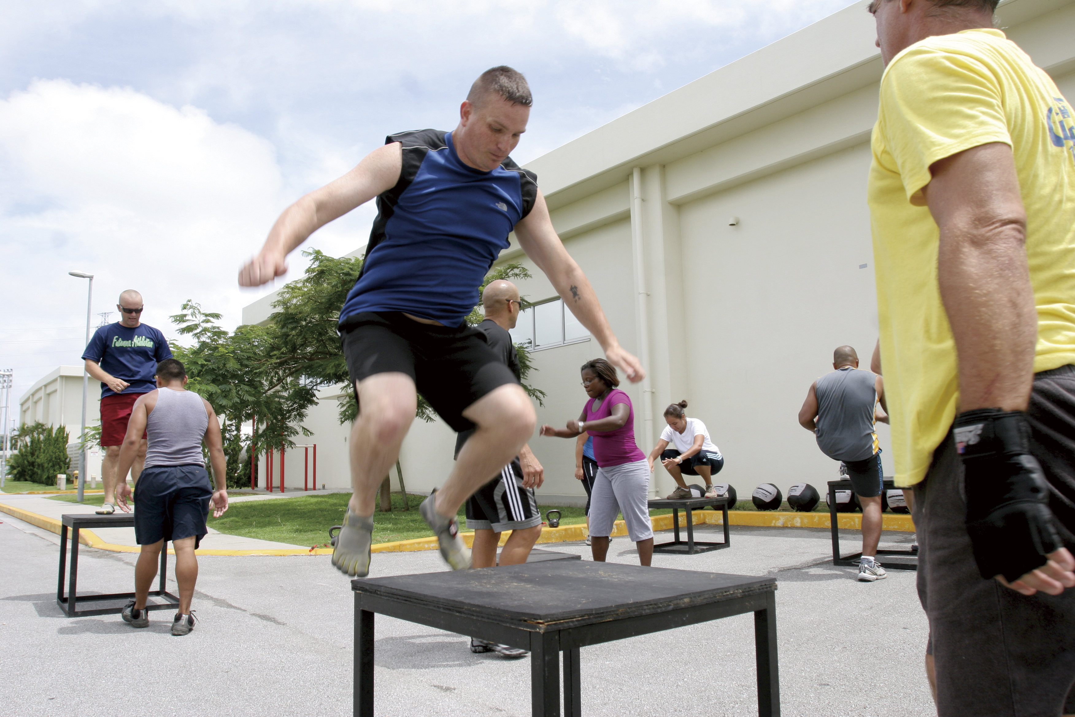 Gunnery Sgt. Philip Baker, G-1 administration chief with Marine Wing Headquarters Squadron 1, 1st Marine Aircraft Wing, III Marine Expeditionary Force, performs plyometric jumps at Gunner’s Gym on Camp Foster. Plyometrics is a way for Marines to toughen their bodies for the CFT.